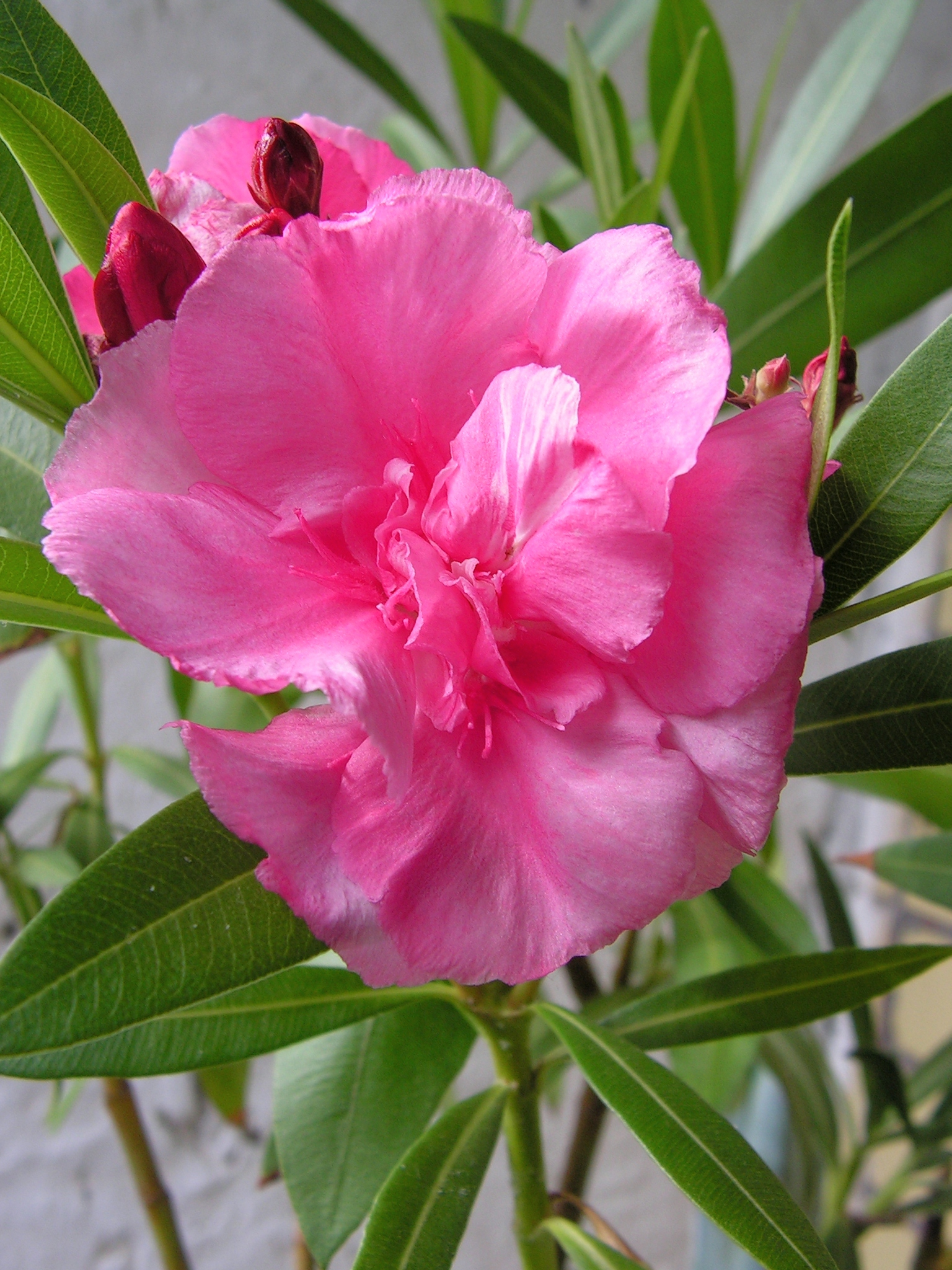 Nerium oleander L. Flower 6 × 5 cm.